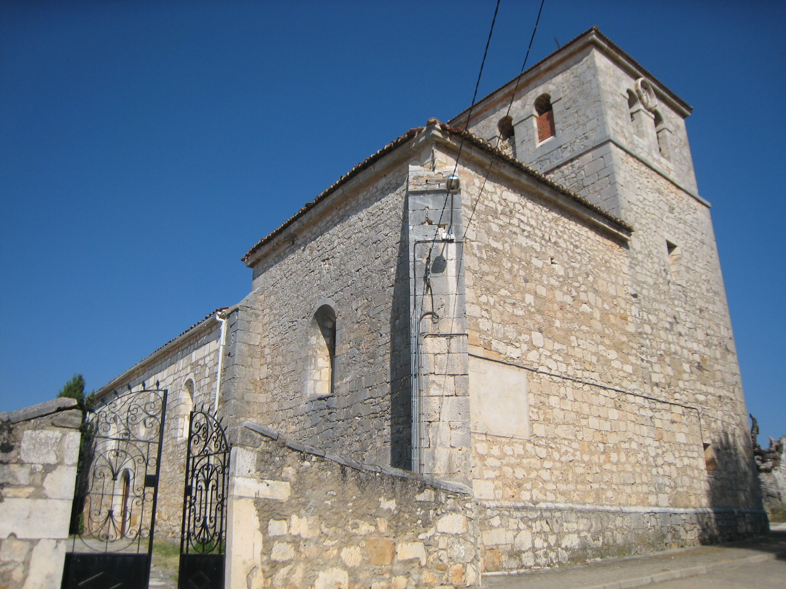 Church of Santa Maria de las Hoyas, Soria, Spain.